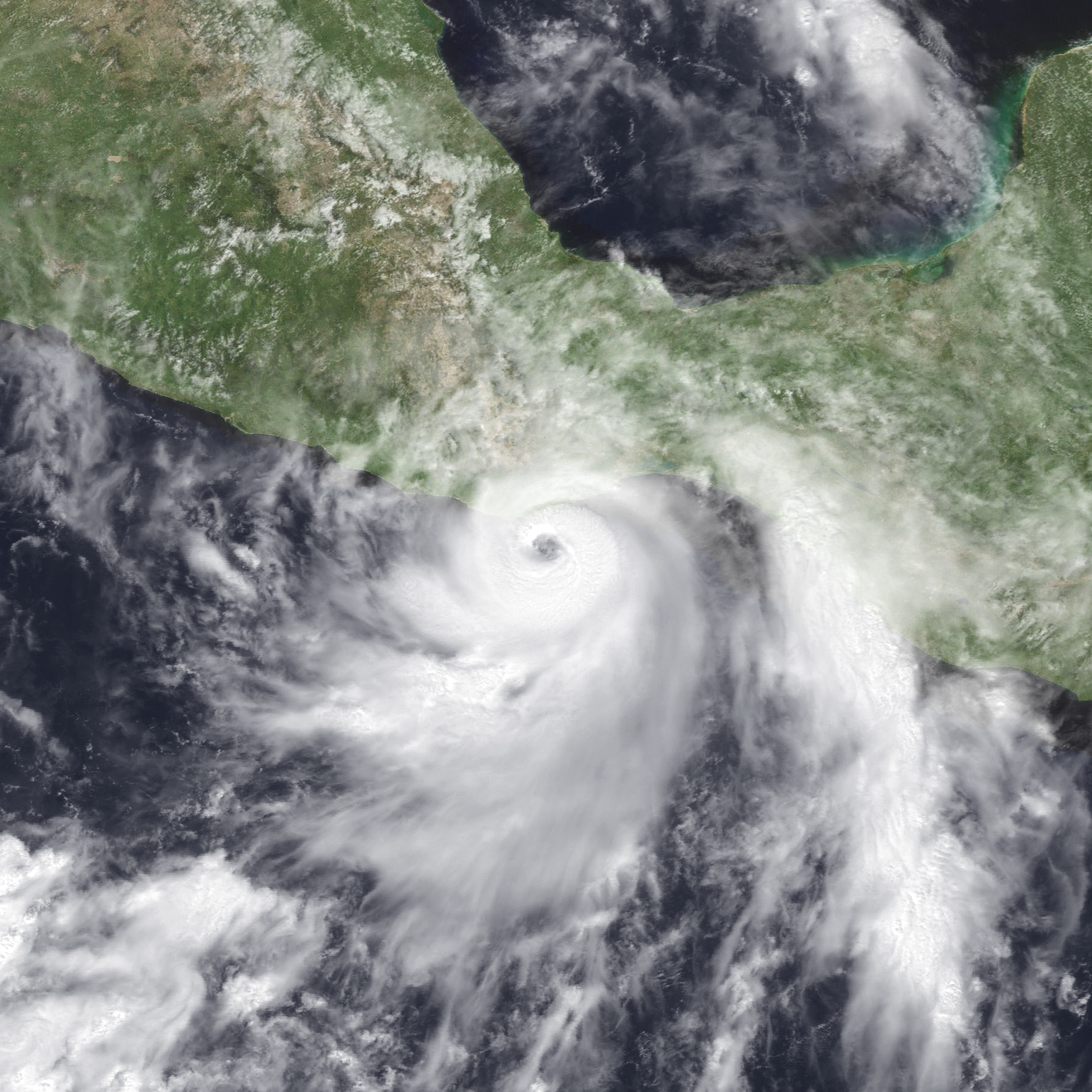 Hurricane Pauline at peak intensity near landfall in Mexico on October 8, 1997